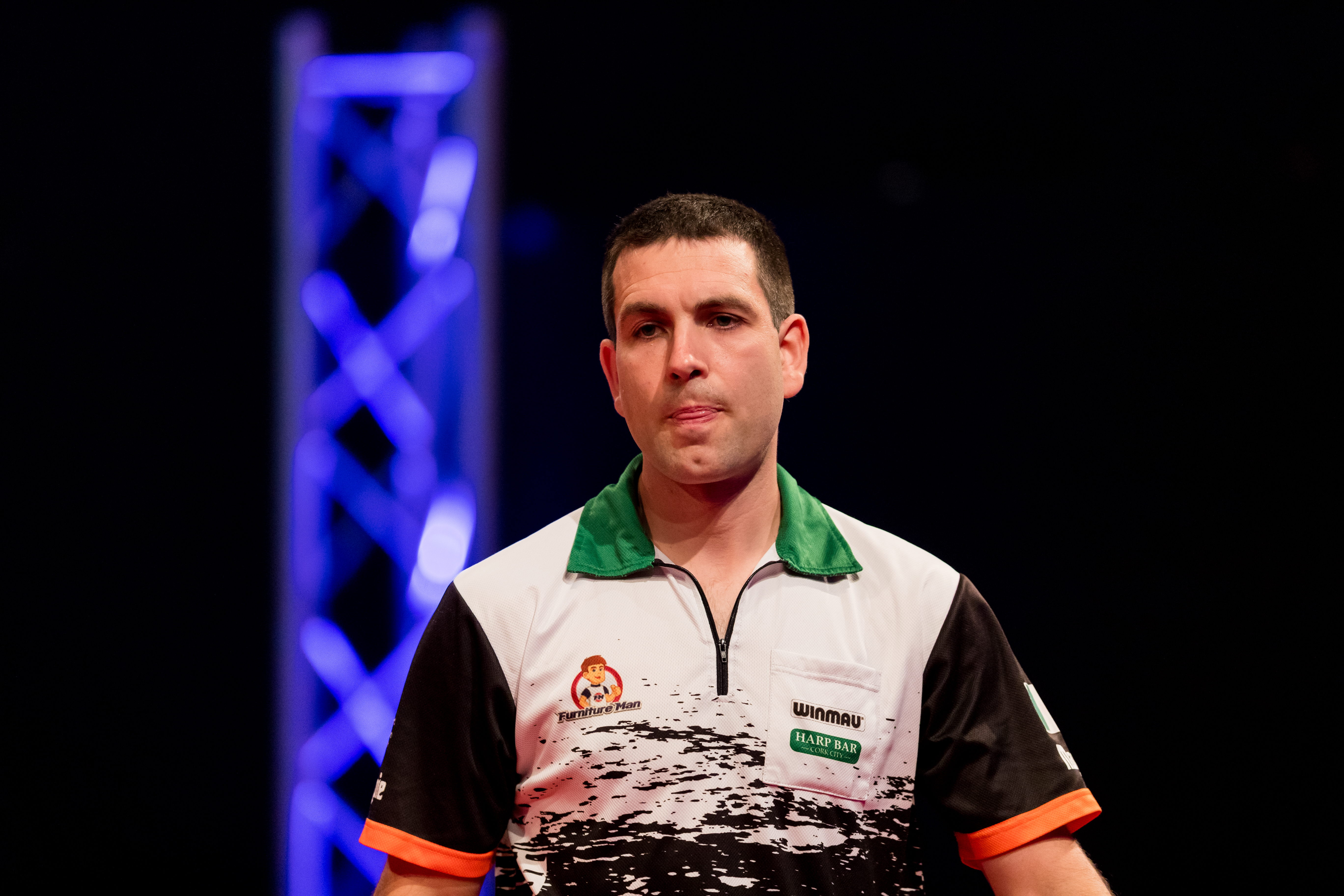 Max Hopp 5:6 William O'Connor during PDC Europe Darts Matchplay at Maimarkthalle, Mannheim, Baden-Württemberg, Germany on 2019-09-06, Photo: Sven Mandel